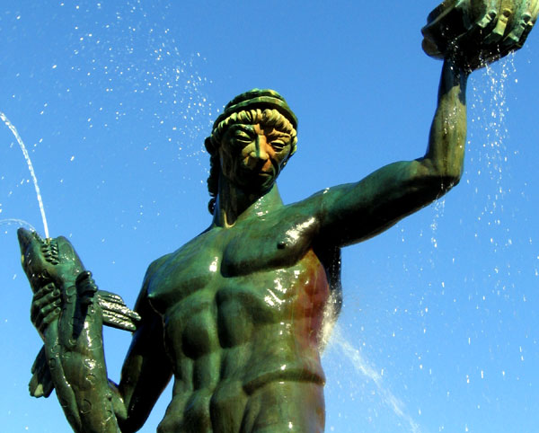 Milles' Poseidon Author: Matthew McPherson Gothenburg, Sweden - July 2005 Canon Powershot A95